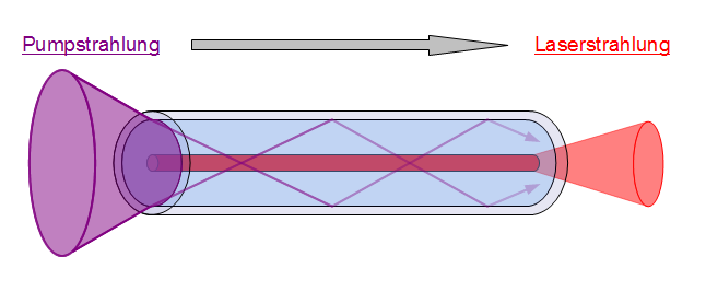 double clad fiber